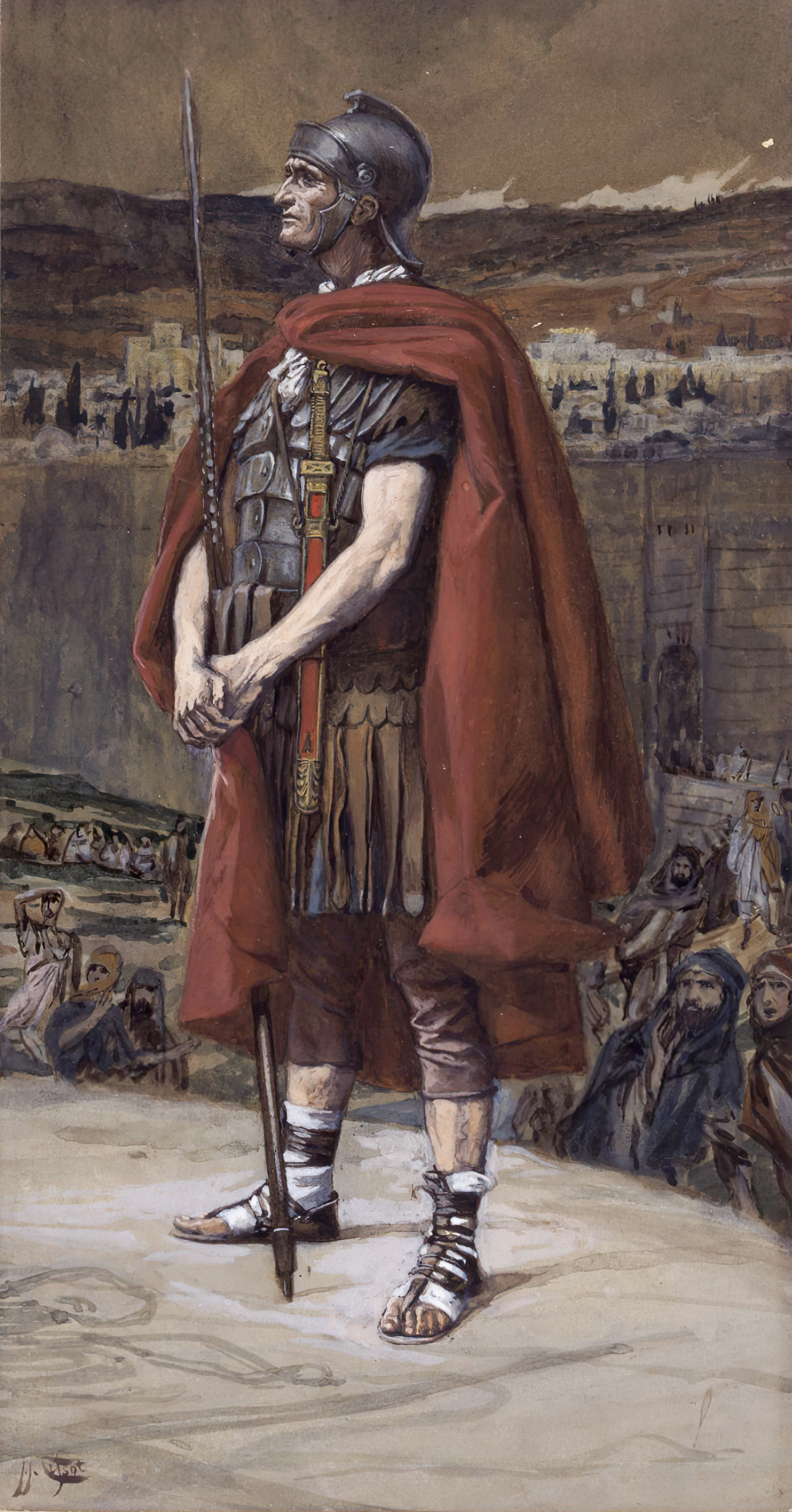 The Centurion (Le Centurion), 1886-1894. Opaque watercolor over graphite on gray wove paper, Image: 9 13/16 x 5 3/16 in. (24.9 x 13.2 cm). Brooklyn Museum, Purchased by public subscription, 00.159.310